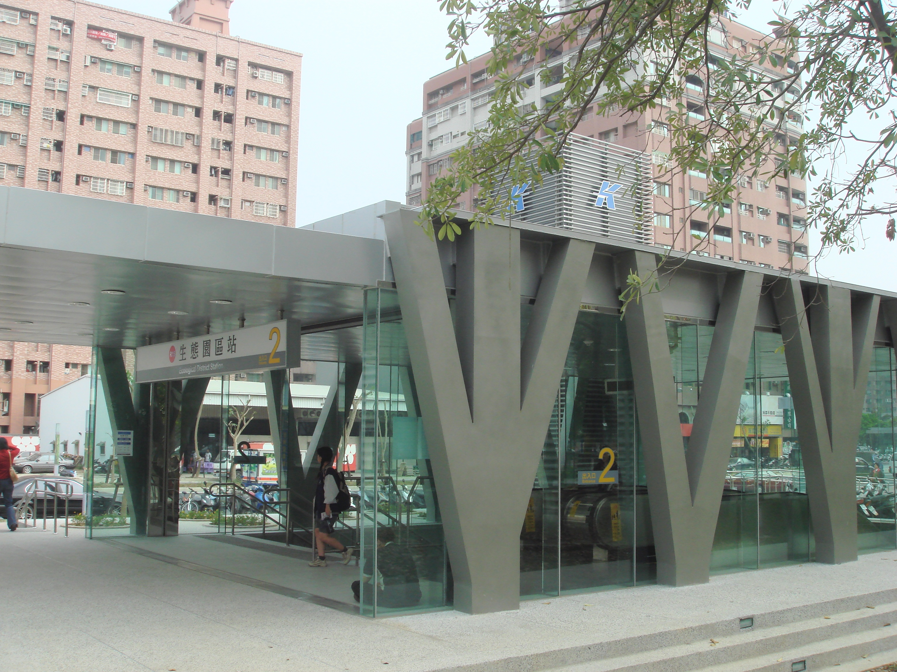 Exit 2, Ecological District Station, Kaohsiung MRT.